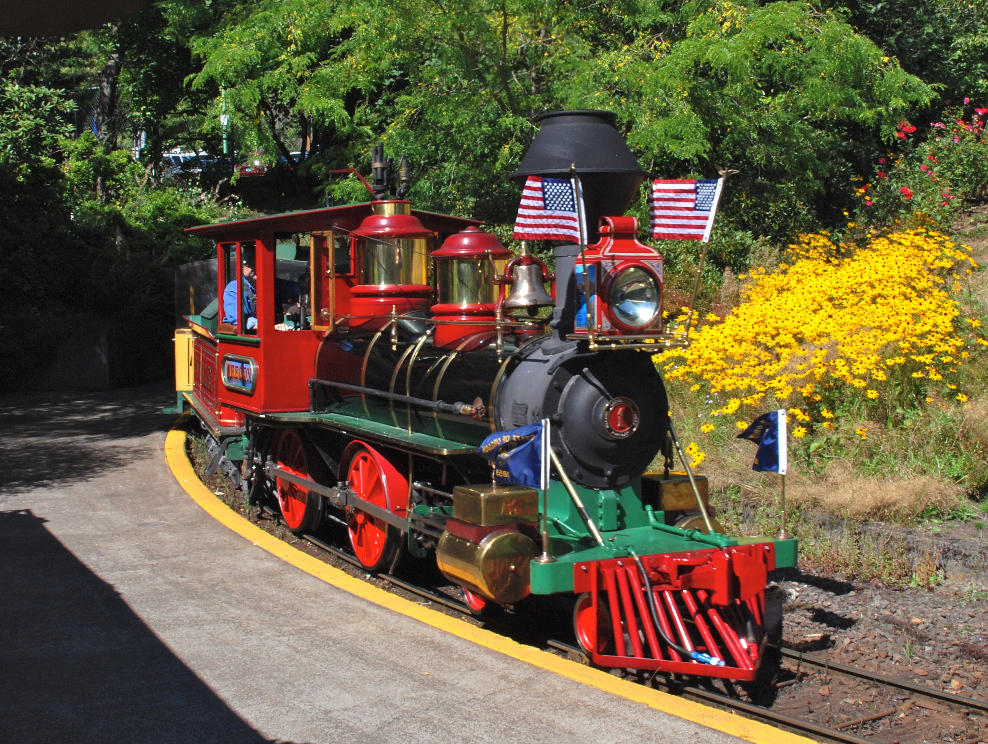 Portland, Oregon: Washington Park & Zoo Railway locomotive No. 1, the Oregon, arriving at the Zoo station in 2010. The railroad opened in 1959 (as the Portland Zoo Railway) and has a track gauge of 30 inches (762 mm) and approximately 5/8-scale rolling stock. Locomotive No. 1 was built in 1959 and is a scale replica of the Virginia & Truckee Railroad 4-4-0 locomotive, Reno, built in 1872.